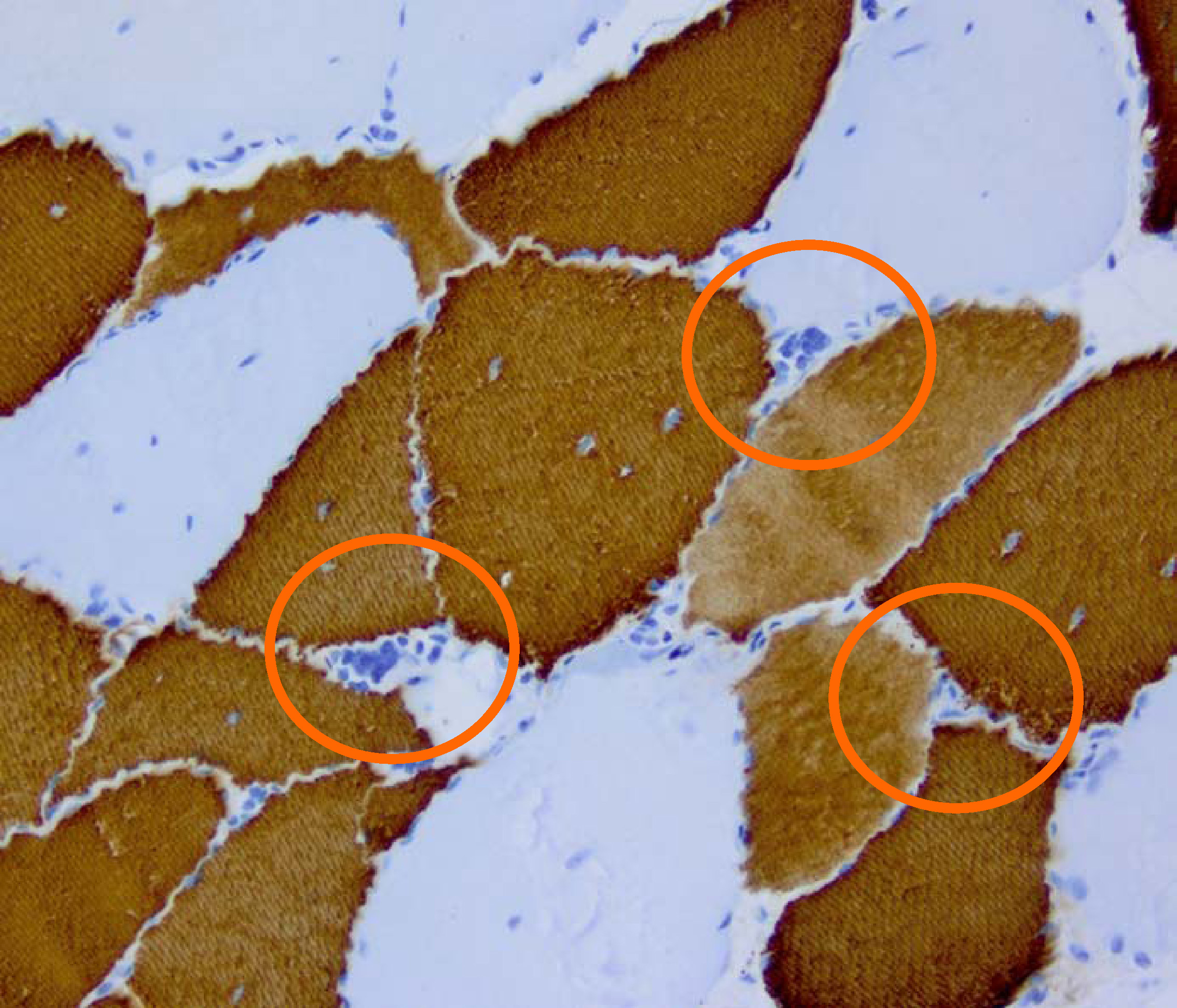 Histopathology of Myotonic Dystrophy Type 2 (DM2, PROMM). Muscle biopsy showing mild myopathic changes and grouping of atrophic fast Fibres (Type 2, highlighted). Imunohistochemical staining for Type-1 ("slow") Myosin